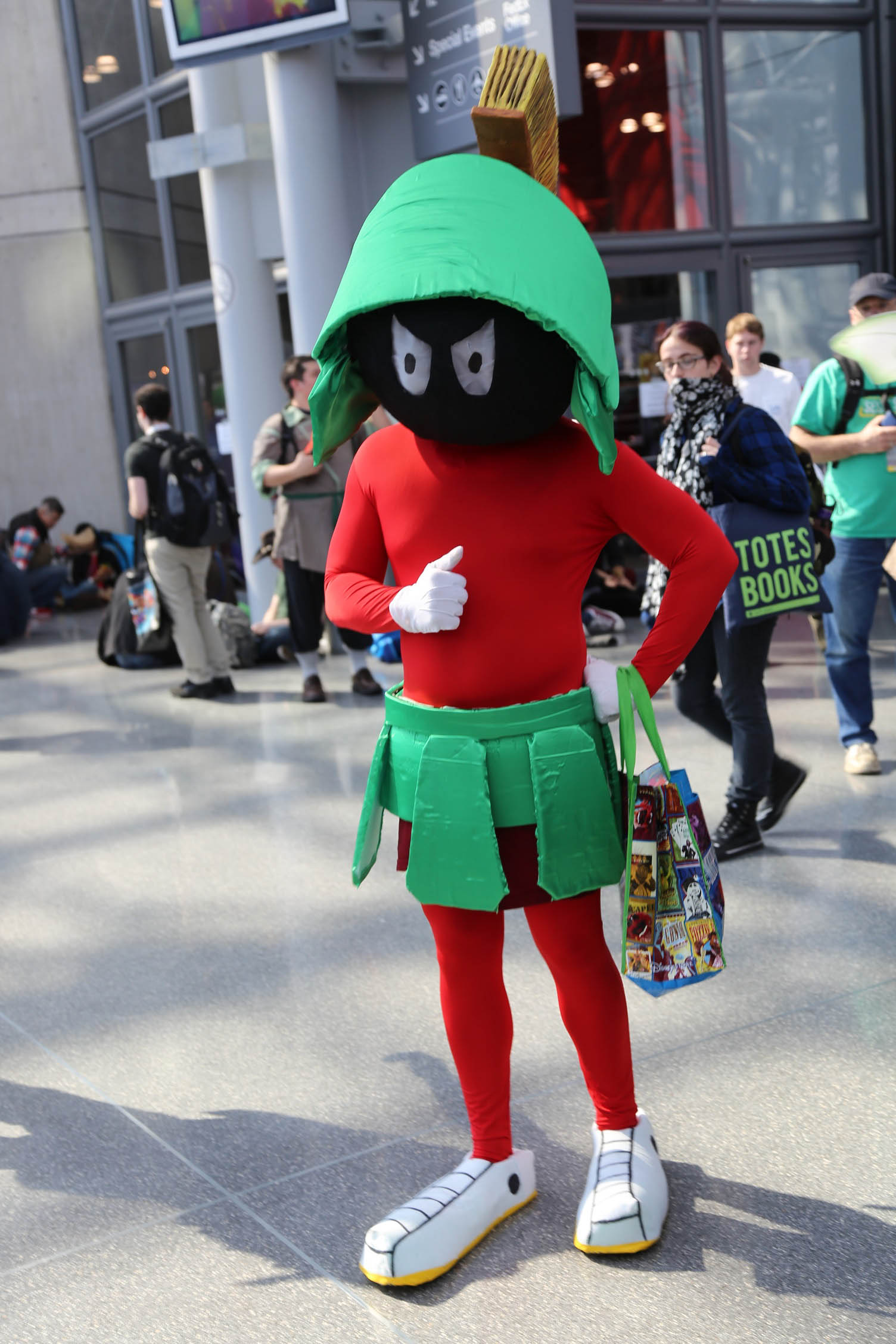 Cosplay at the 2014 New York Comic Con.